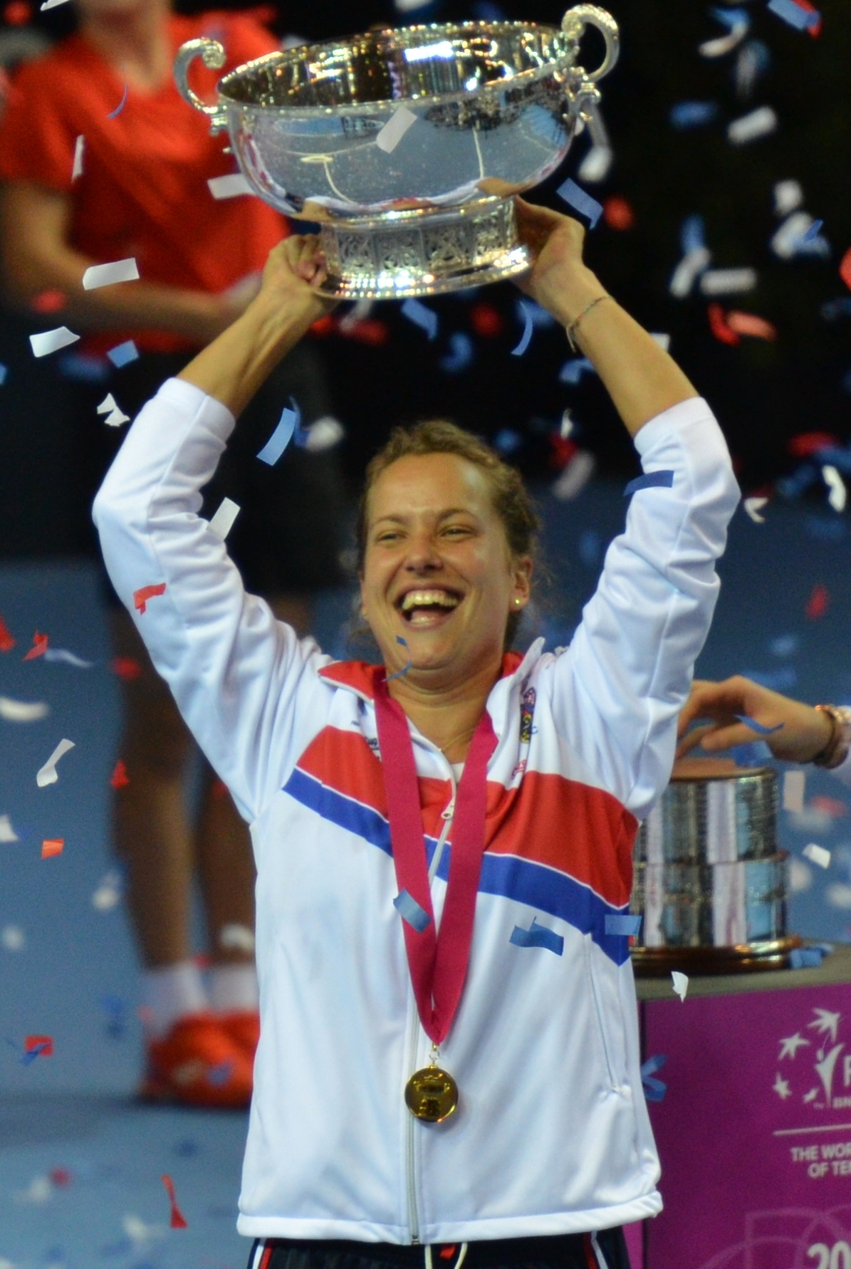 Barbora Strýcová holds the Fed Cup trophy at the 2016 Fed Cup Final